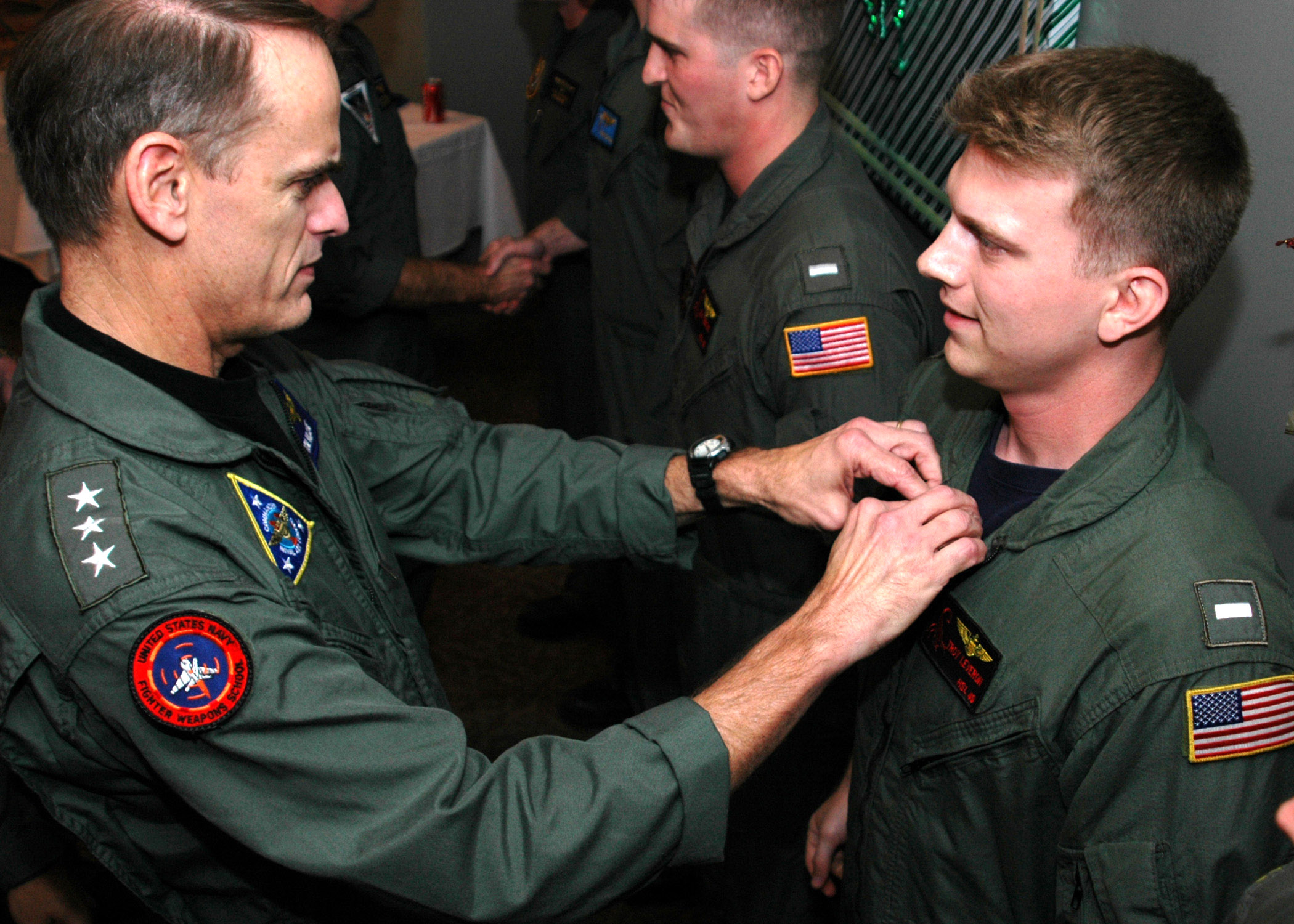 CORONADO, Calif. (Dec. 8, 2007) Commander, Naval Air Forces, Vice Adm. Tom Kilcline, places a squadron patch on Lt. j.g. Troy Leveran during a "Fleet Up" ceremony held at the 19th Hole Sea and Air Golf Restaurant. Fleet Up ceremonies are an informal way the Navy recognizes pilots after they complete the final operational level of their flight training at a replacement air group before articulating into their first operational squadron. U.S. Navy photo by Mass Communication Specialist 2nd Class Chris Fahey (Released)